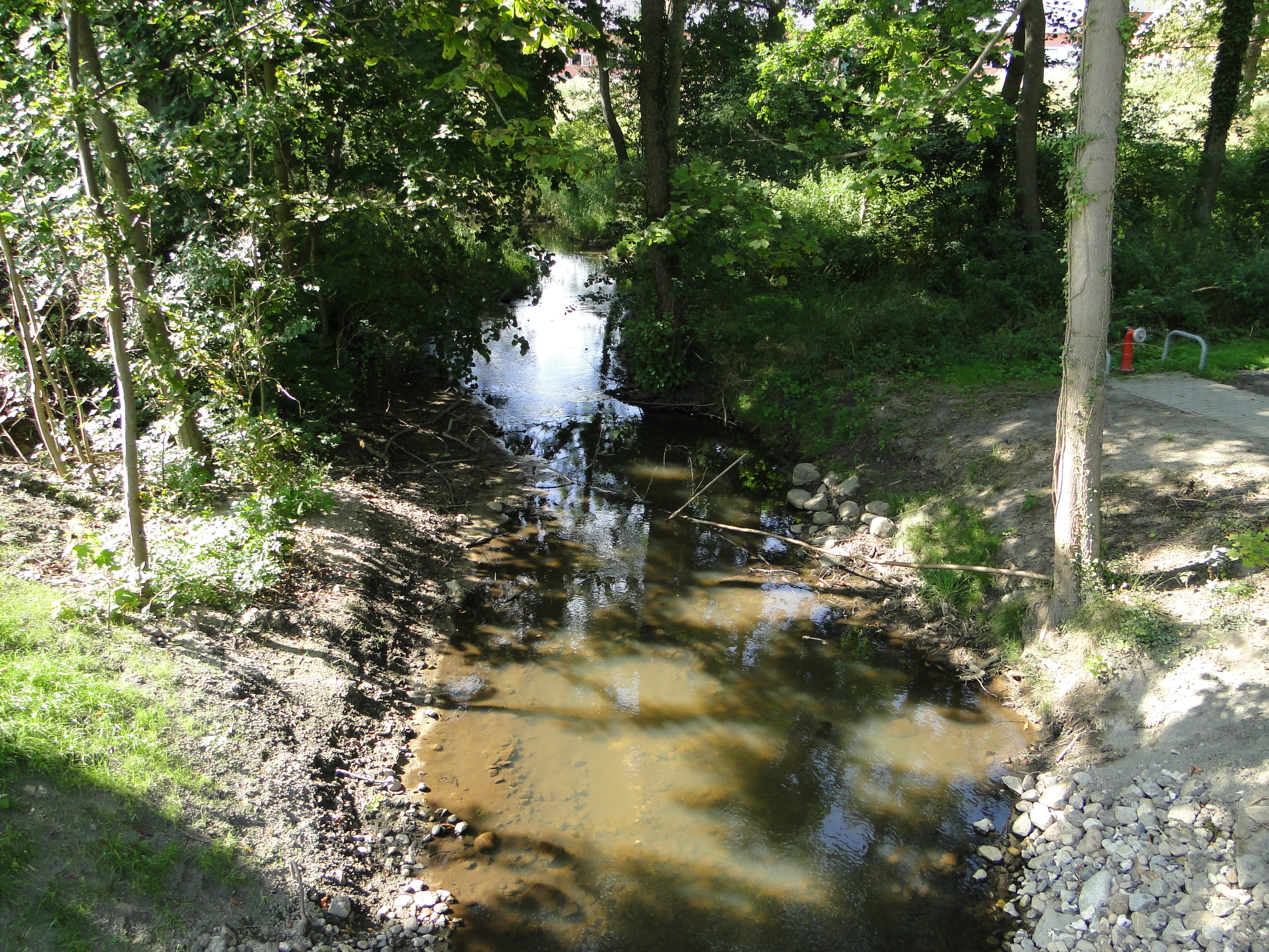 Zarnow river, seen from bridge of the street Mühlendrift in Reez, district Rostock, Mecklenburg-Vorpommern, Germany